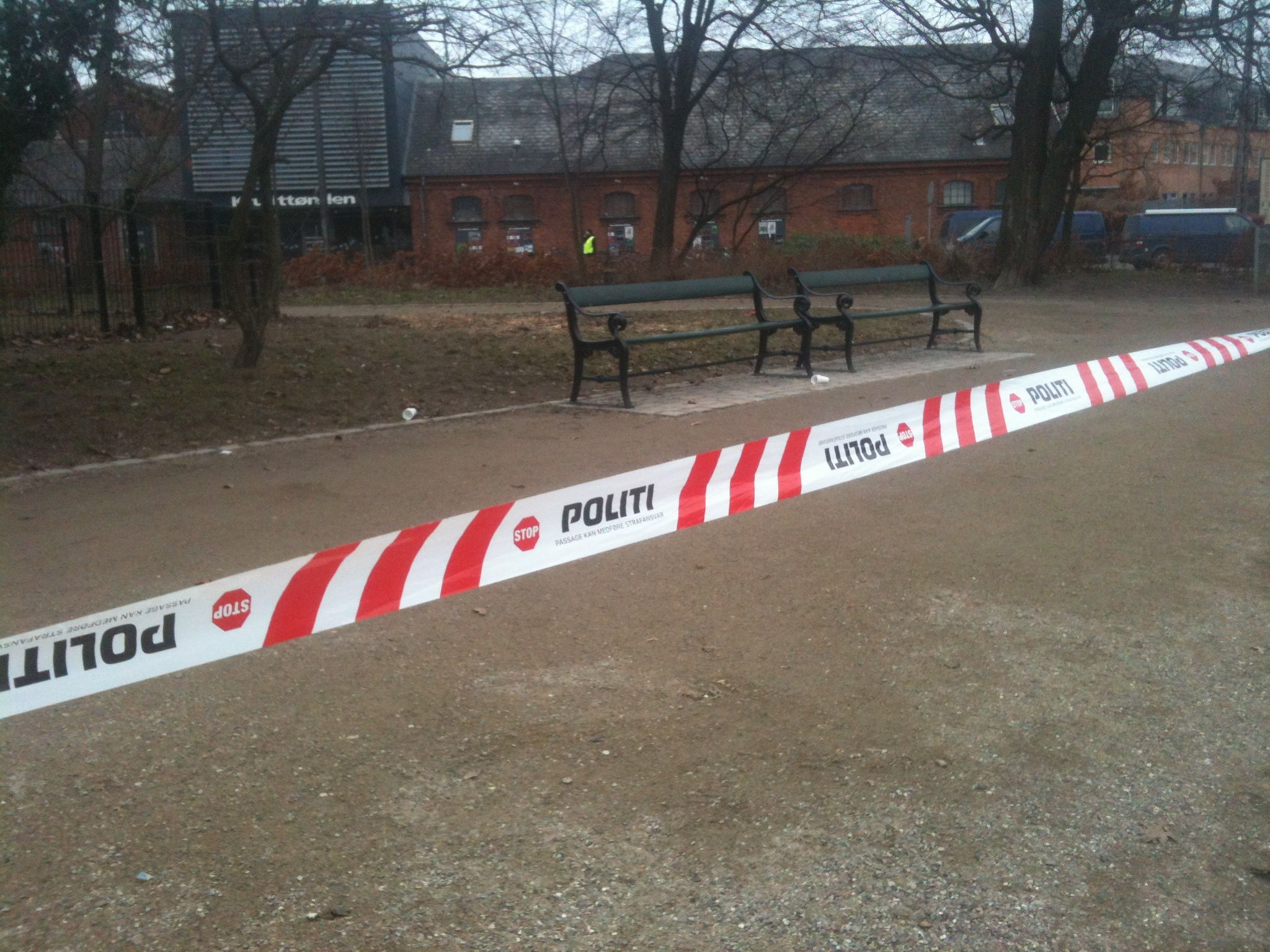 Police line near Krudttønden, Copenhagen, Denmark